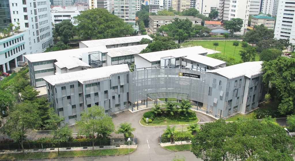 View of Curtin Singapore campus